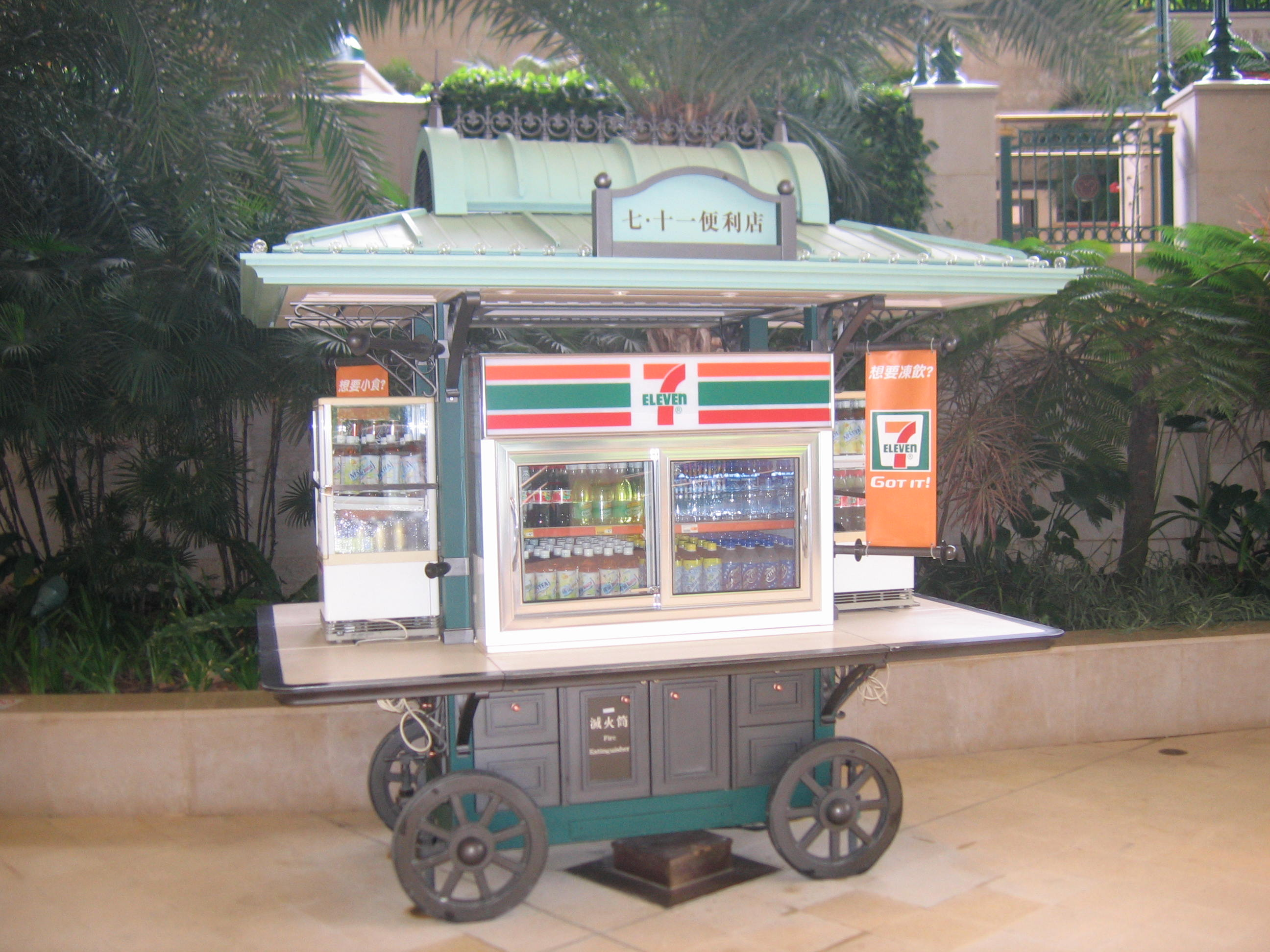 A 7-11 mini-store in Disney Resort Station,HK